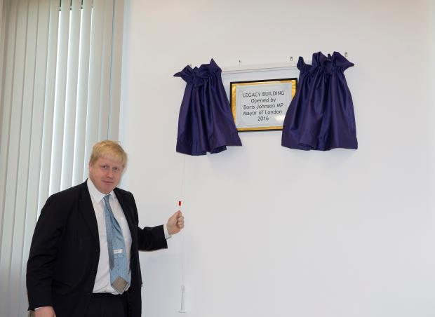 Boris Johnson opens the new sixth form centre at Chislehurst and Sidcup Grammar School